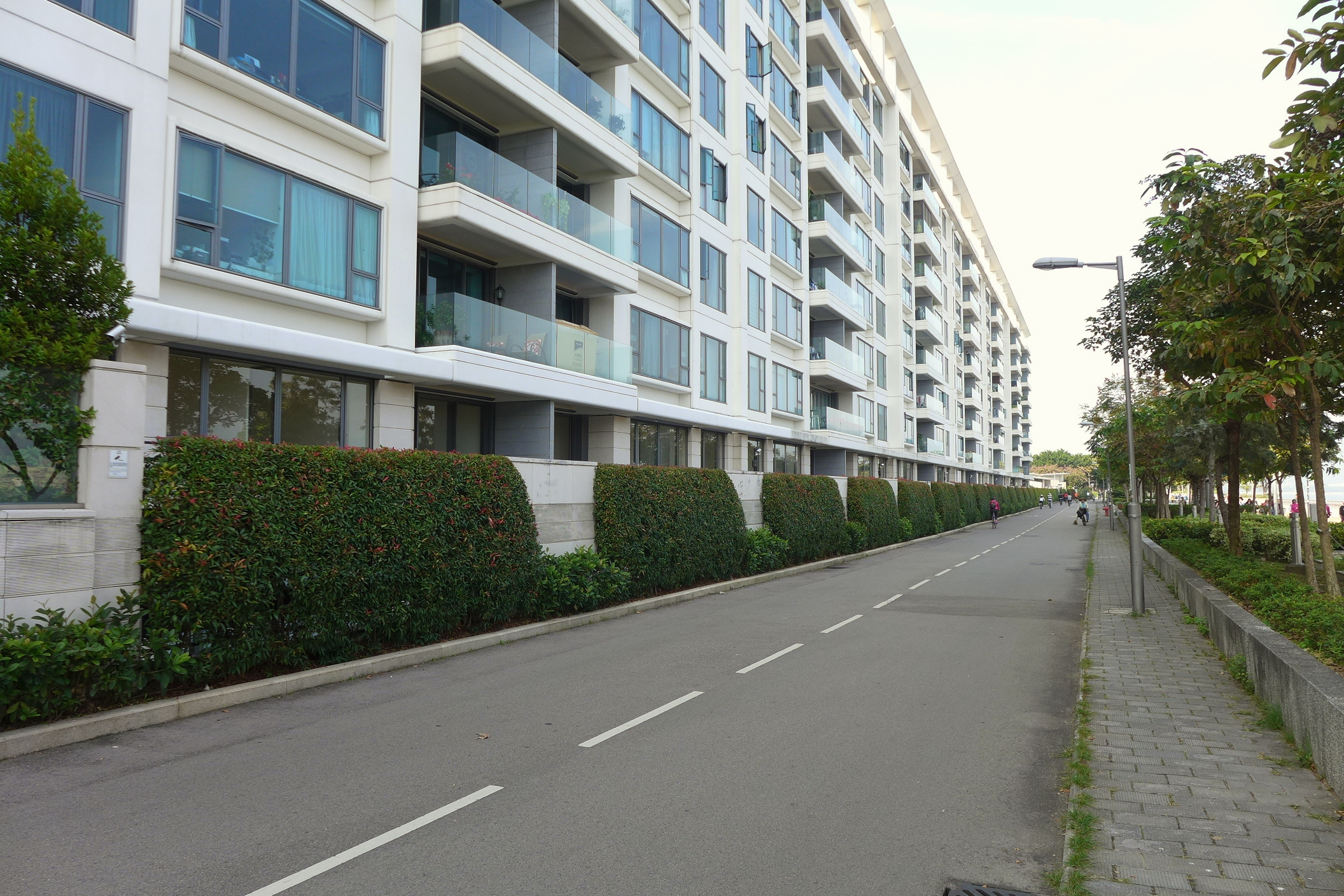 Providence Bay near cycling track